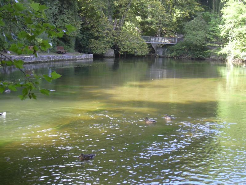 karst spring Aachtopf, source of the river Radolfzeller Aach in Baden-Württemberg, Germany.